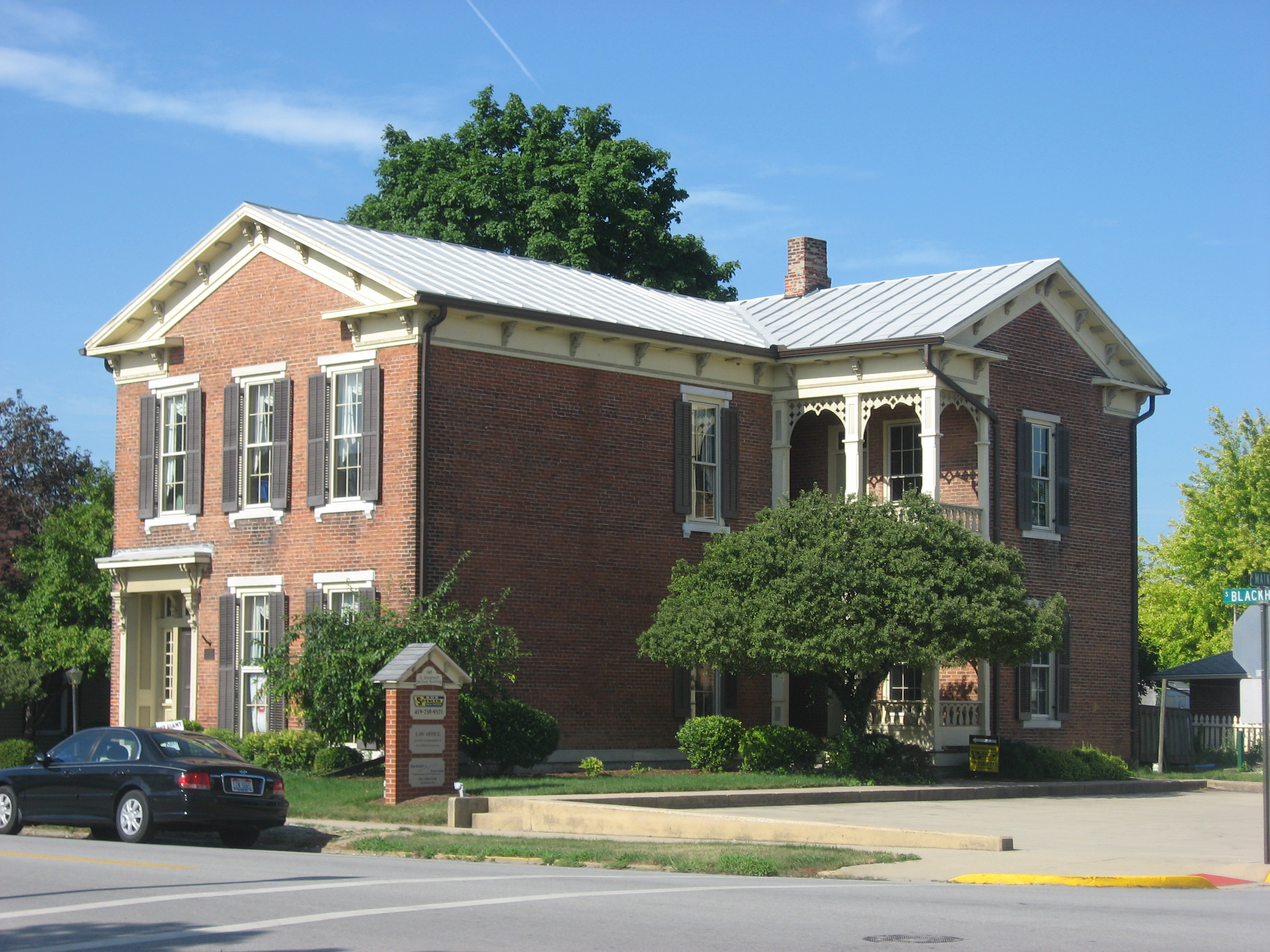 Front and northern side of the John H. Nichols House, located at 103 S. Blackhoof Street in downtown Wapakoneta, Ohio, United States. Built in 1865, the house is listed on the National Register of Historic Places.